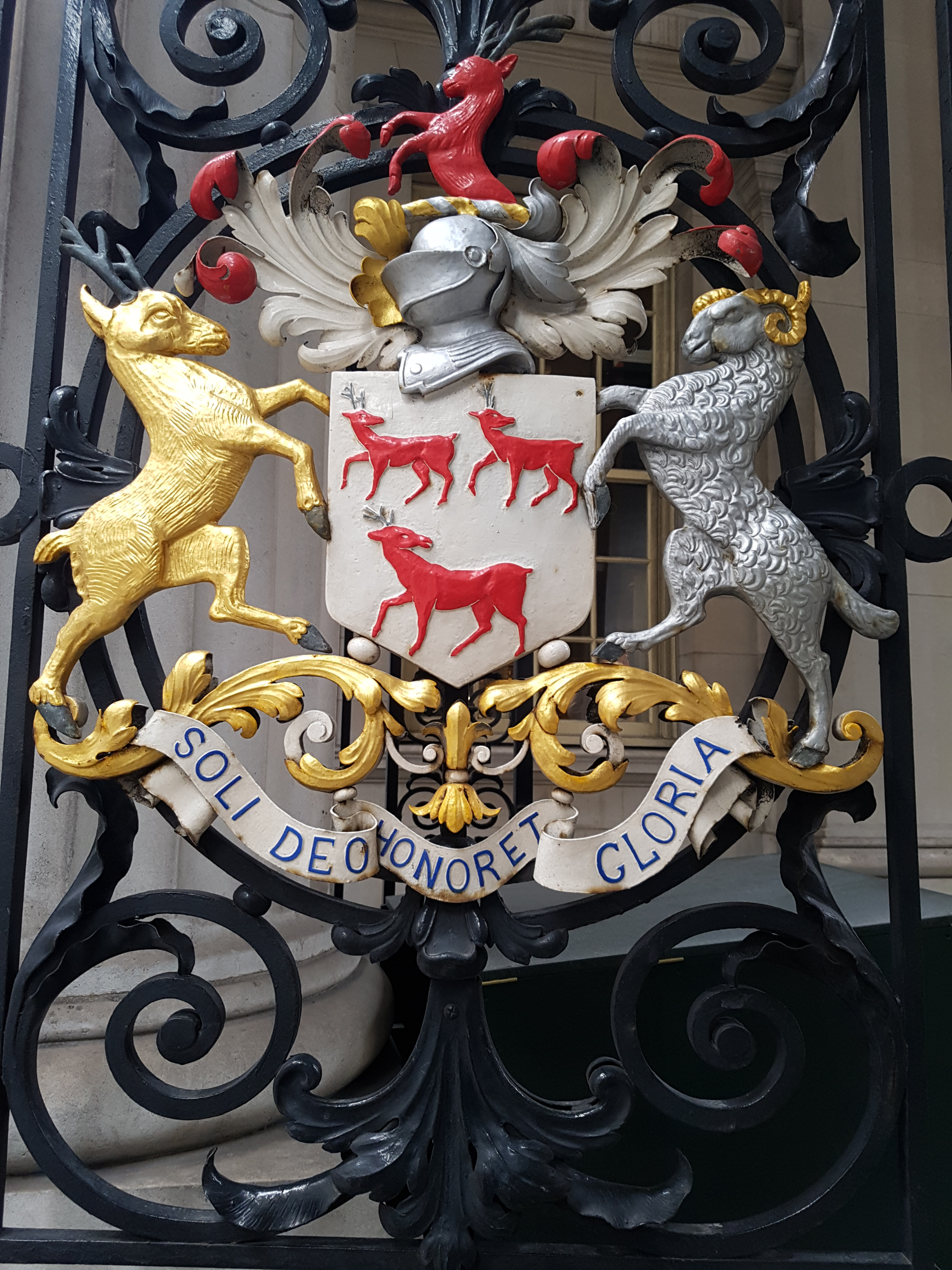 Picture shows the coat of arms of the Worshipful Company of Leathersellers Gate with motto which is found at St Helen's Place City of London